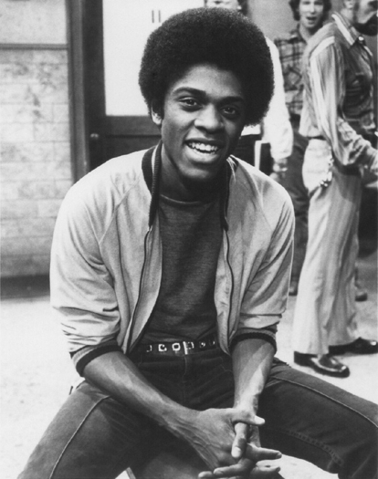 Publicity photo of American actor Lawrence Hilton-Jacobs promoting his role on the ABC television series Welcome Back, Kotter.